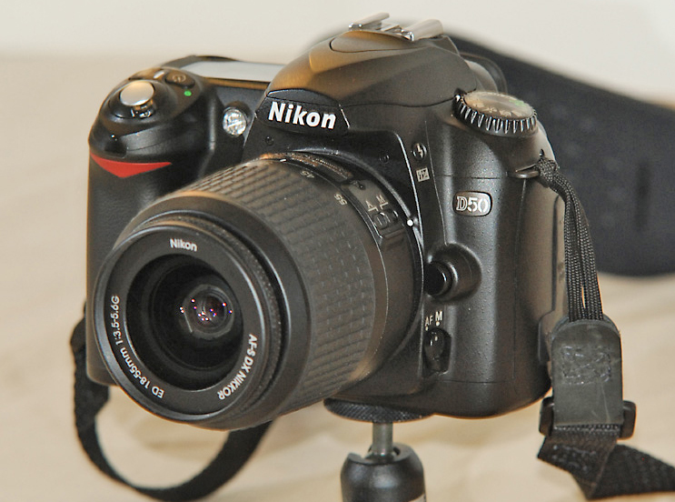 Source: Shawn Clark Lazyeights